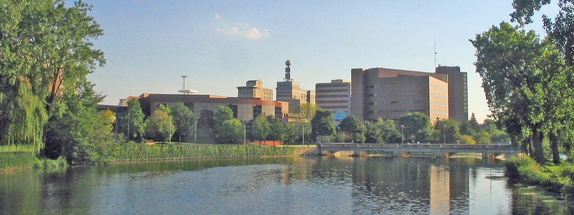 View of the Downtown skyline from the Flint River.